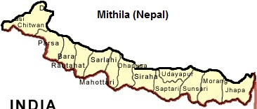 Mithila region of Nepal